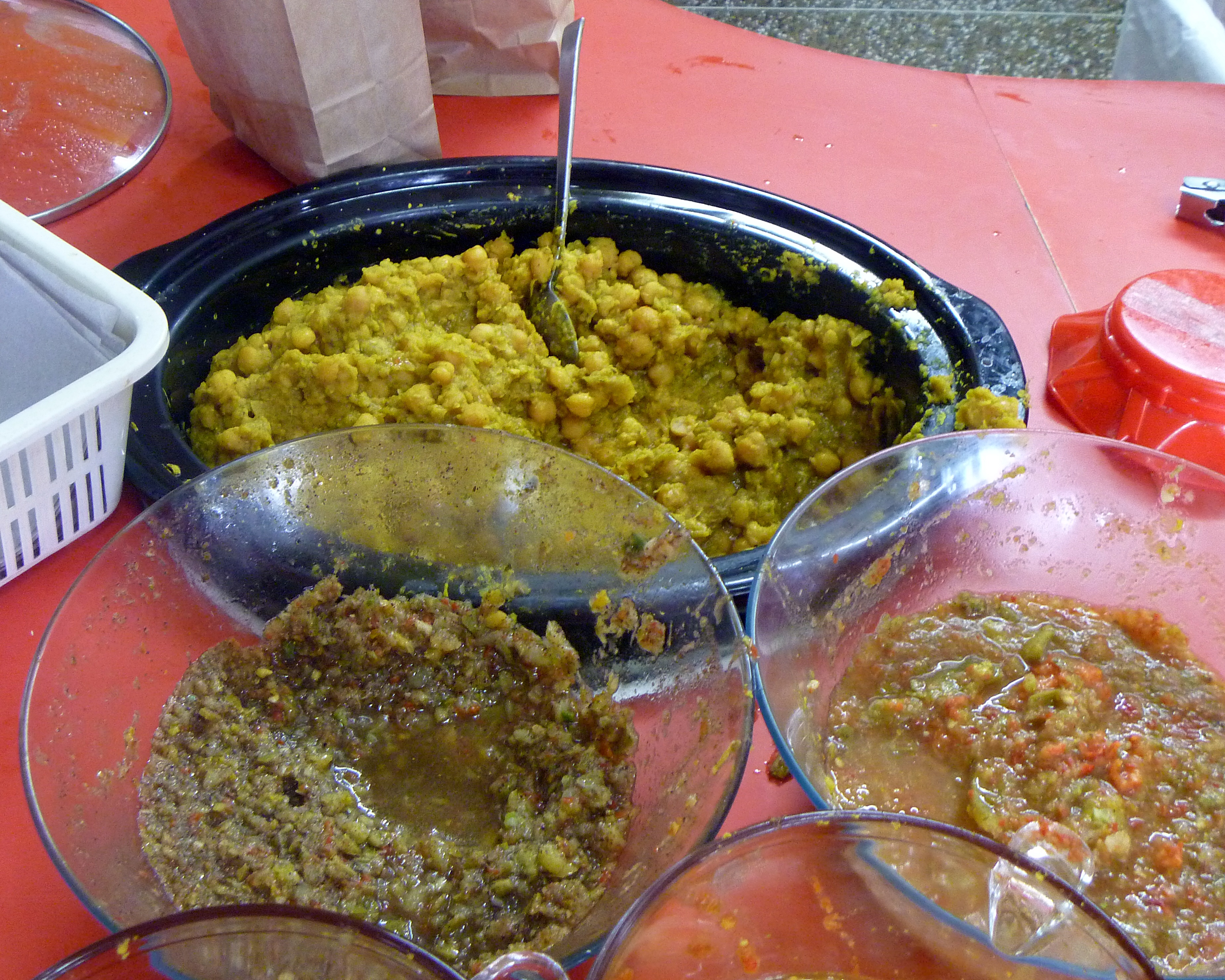 There is a wide variety of sauces, chutneys and homemade condiments that can be added to doubles ranging from mild (slight) to extremely, sweat-inducing hot (plenty pepper).